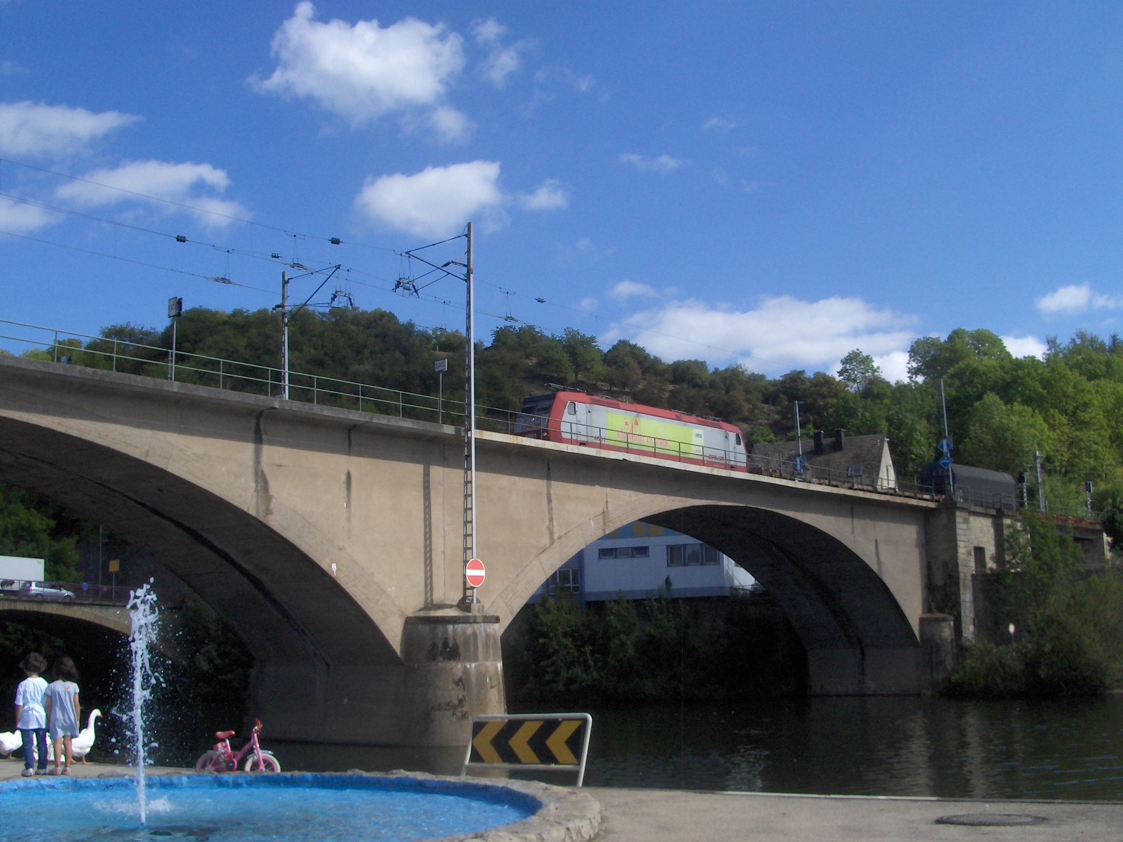 The CFL locomotive 4001 pulling a freight train across the Sauer bridge at Wasserbillig. Note that the engine is not connected to the overhead power lines, as the German and the Luxembourgish currency systems are connected here.